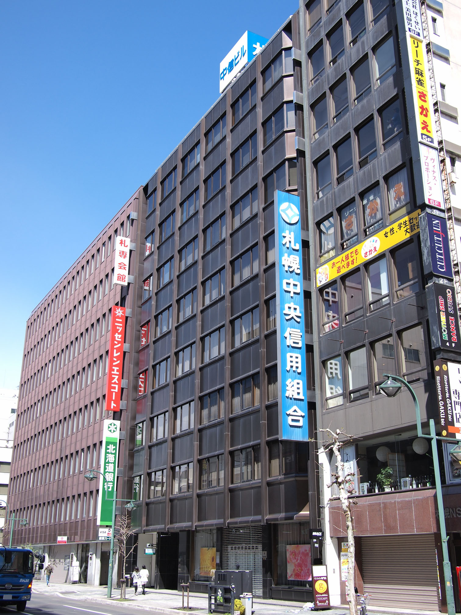 Sapporo Chuo credit union, Sapporo, Hokkaido, Japan